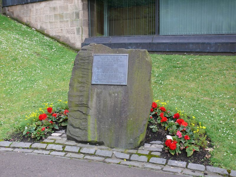 Edinburgh & Lothians Spanish Civil War Memorial